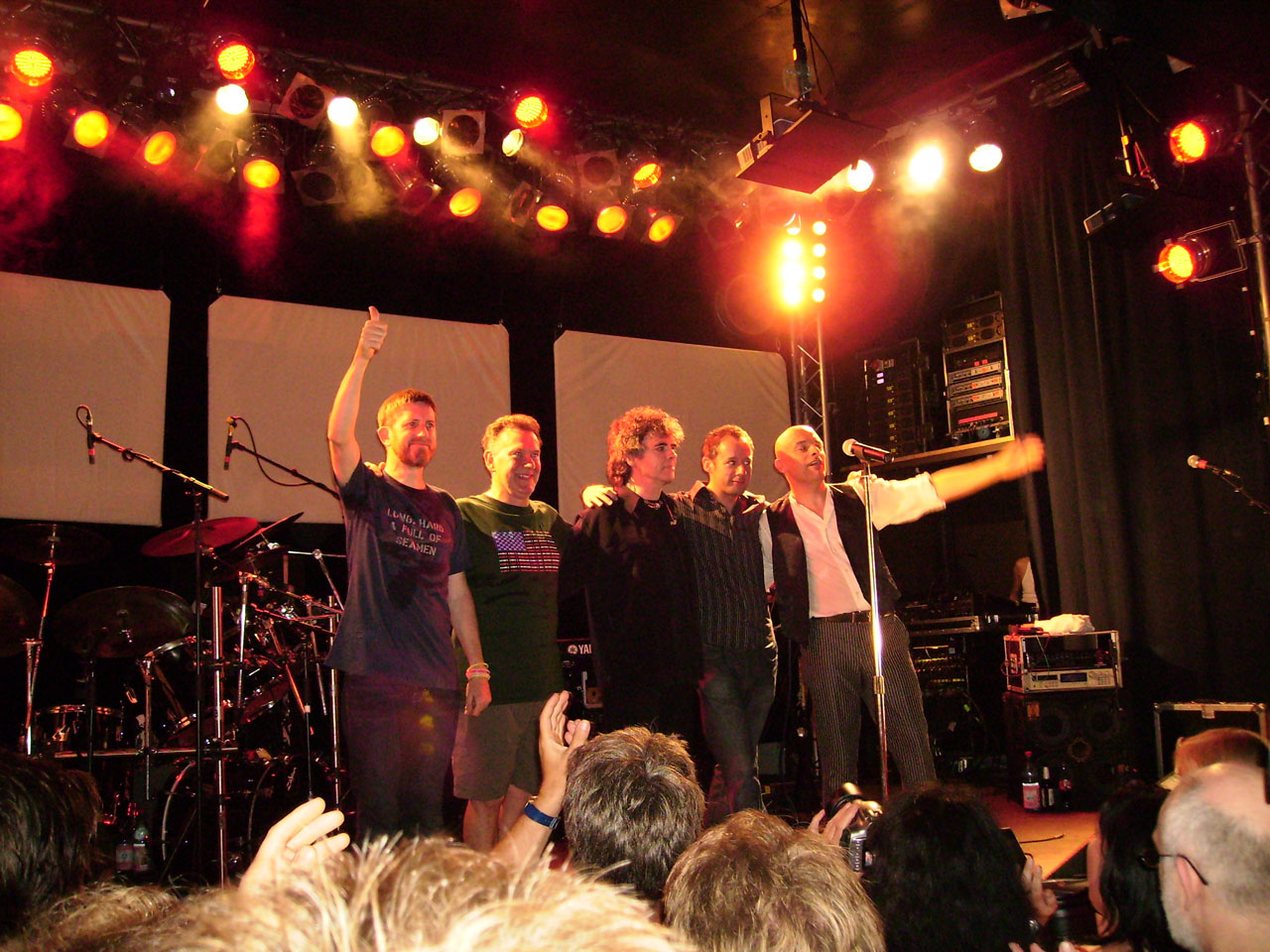 IQ concert in Berlin, Lido, 04 September 2009.